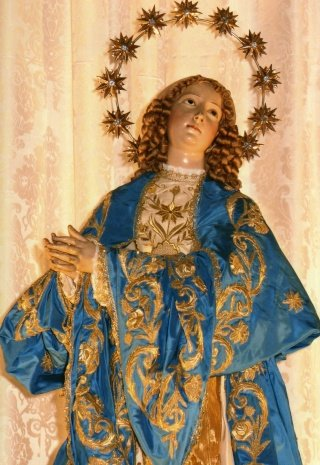 Statue of Immaculate of Taranto